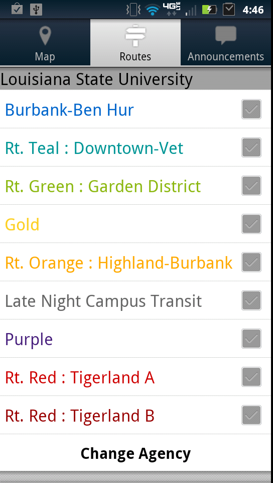 Screenshot_TransLoc on Android